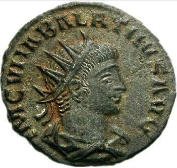 Vabalathus. Usurper, AD 272. Antoninianus 3.82 g. Antioch. March-May AD 272. IM C VHABALATHVS AVG, radiate, draped, and cuirassed bust right. RIC V 5 corr. (bust type); BN 1266; MIR 47, 361a.